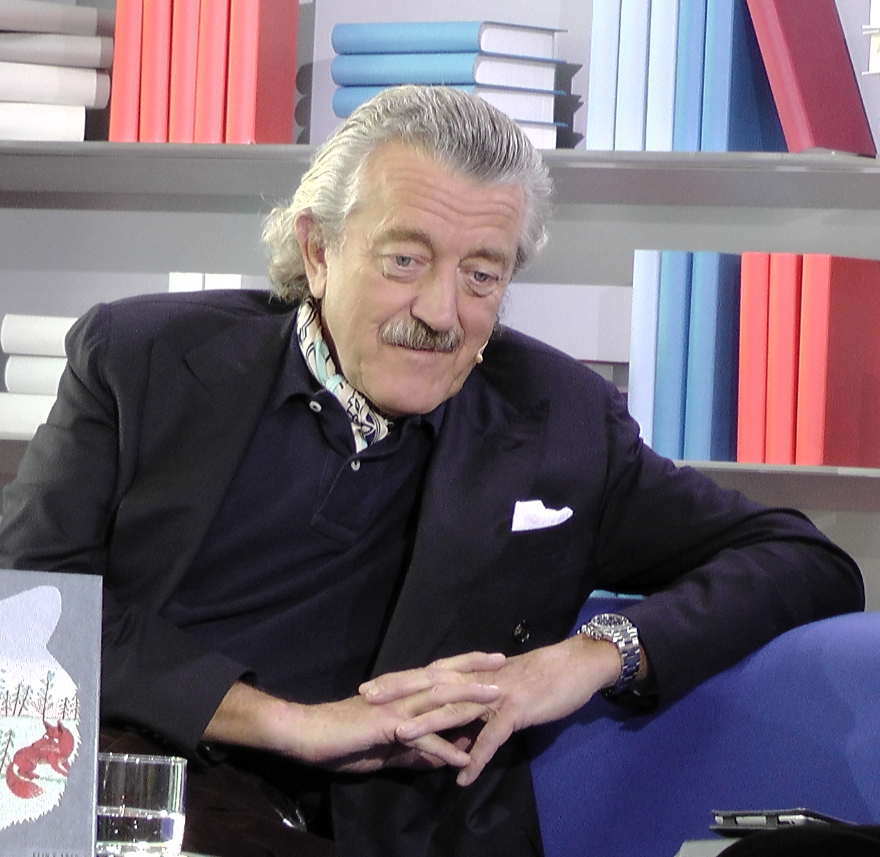 Dieter Meier on October 15, 2011